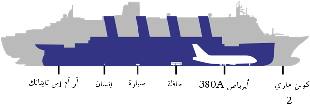 SVG version of